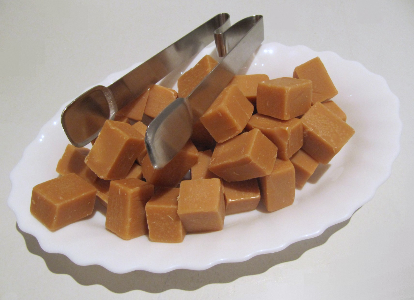 English fudge in chunks